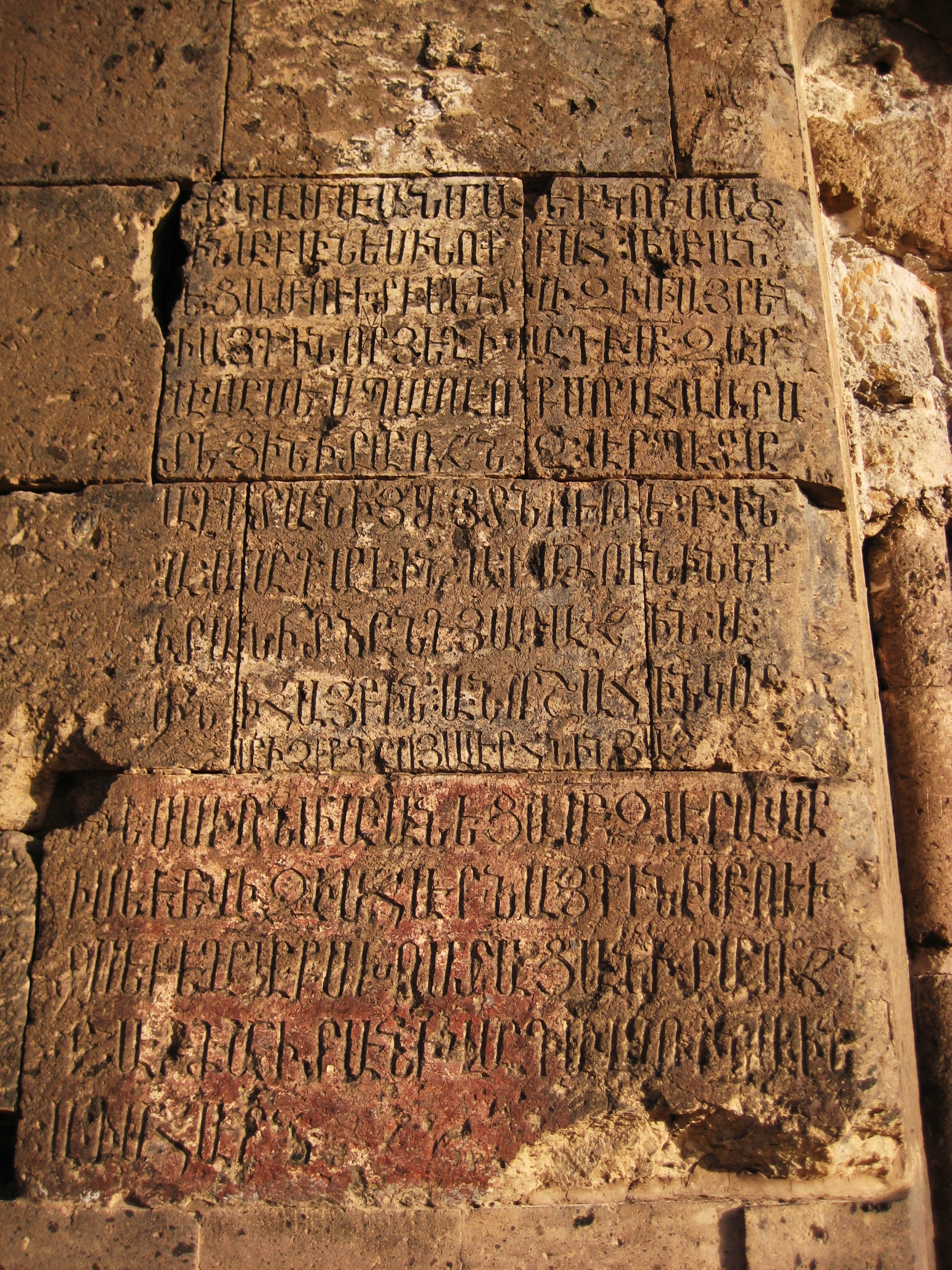 Inscription near the portal at Gharghavank.